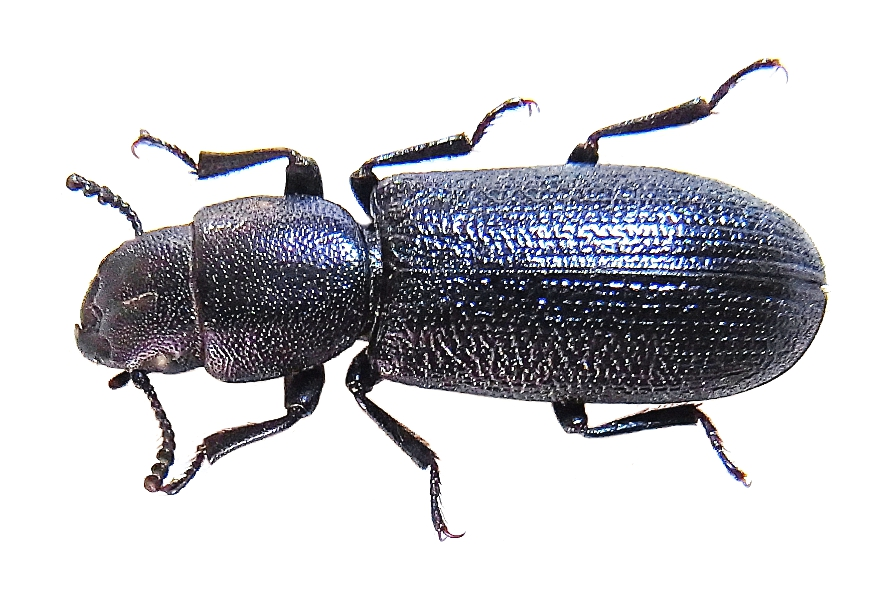 Temnochila caerulea